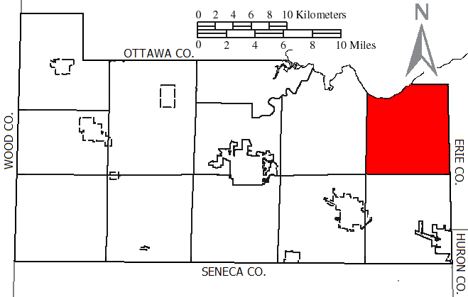 Made by the US Census and modified by User:Frank12